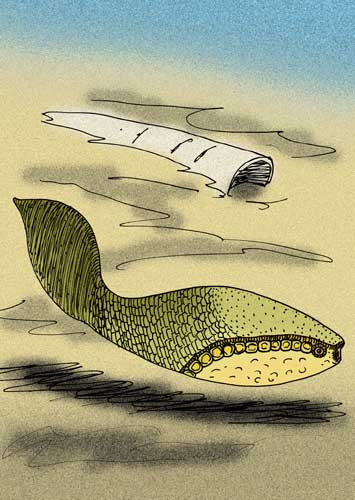 My reconstruction of the Ordovician fish, Arandaspis prionotolepis, of Australia. (C) Stanton F. Fink